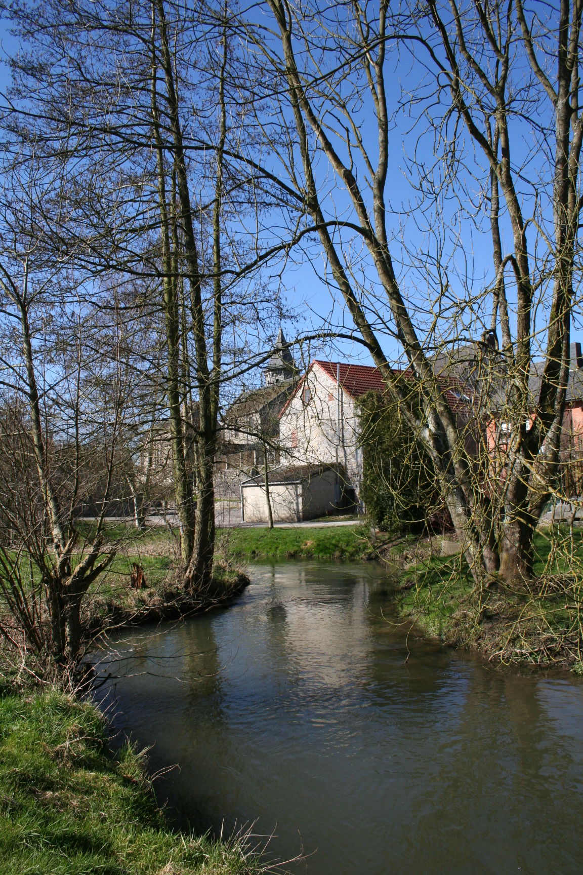 Emptinne (Belgium), the Bocq river and the village .